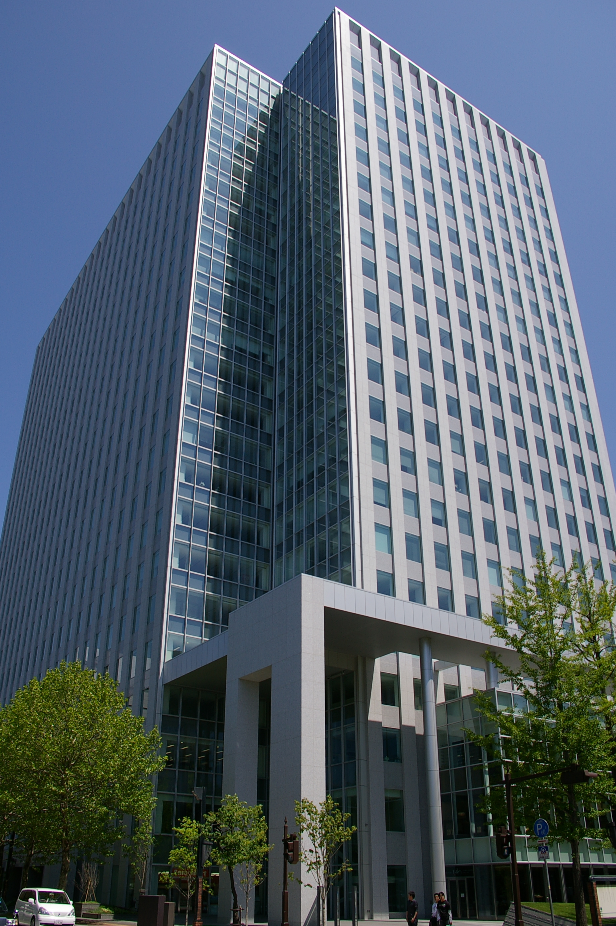 Photograph of Nissay Sapporo Building in Chuo-ku, Sapporo, Hokkaido, Japan.